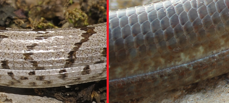 Scales of a juvenile (left) and an adult (right): Benny Trapp Pseudopus apodus Jungtier Jugendzeichnung.jpg (Benny Trapp) Pseudopus apodus Pallas (1).jpg (Yuliya Krasylenko)